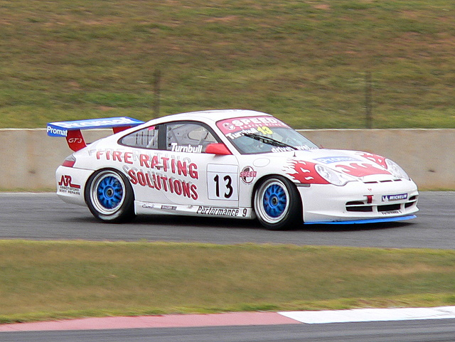 2006 Australian GT Championship season Porsche GT3 Cup race car number 13 driven by Matthew Turnbull during Round 5 at Mallala Motor Sport Park